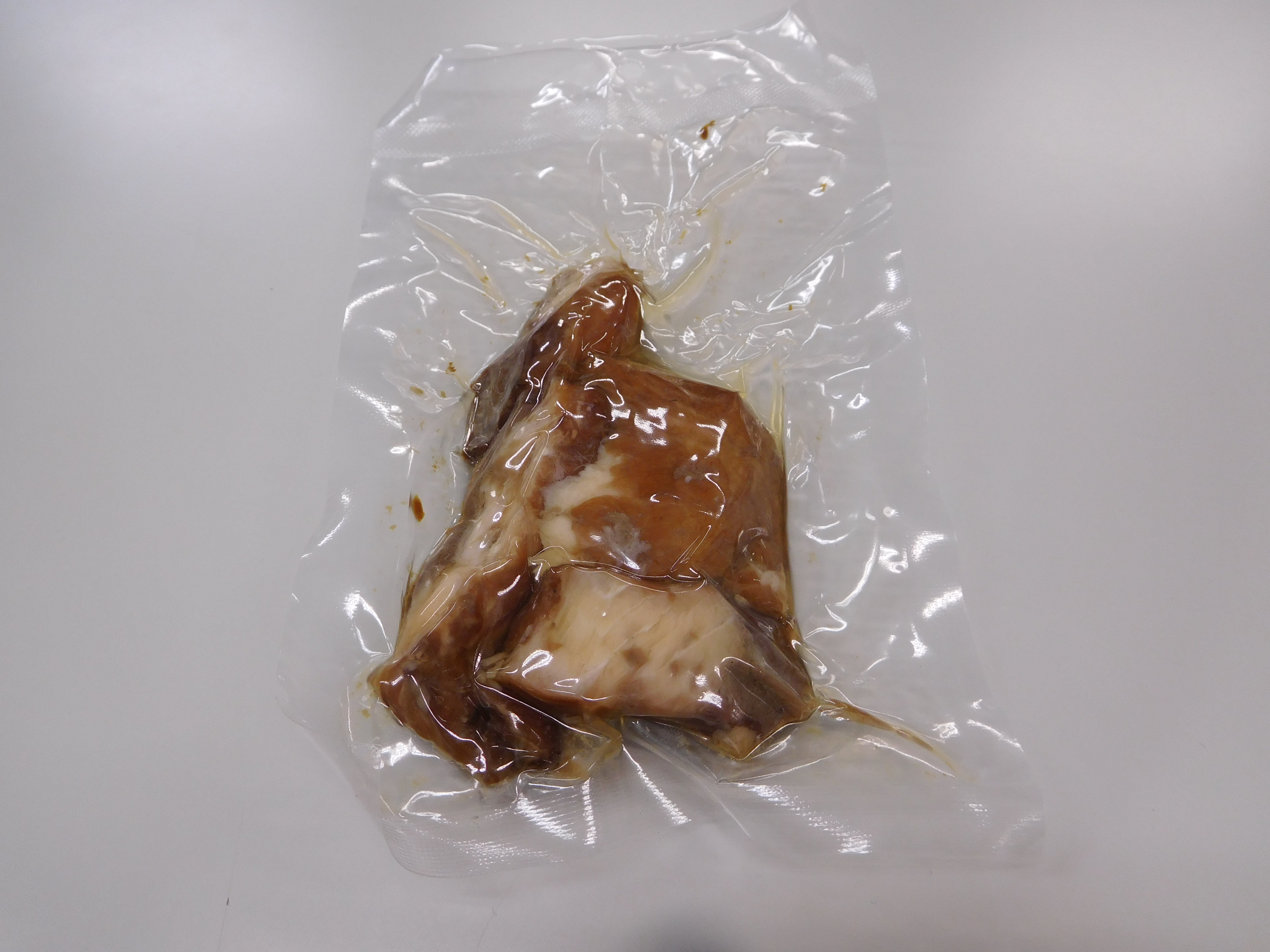 These are smoked Japanese amberjack produced in Kajika-cho, Owase city, Mie prefecture, Japan. These are called "Kajika no Aburi".